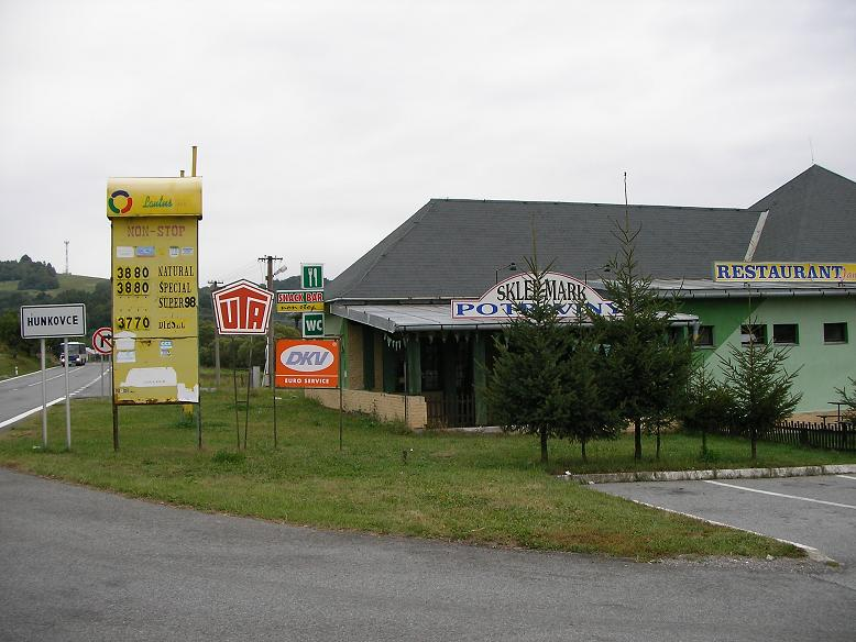 northbound on road entering Hunkovce, Slovakia. German military cemetery is just to the left.